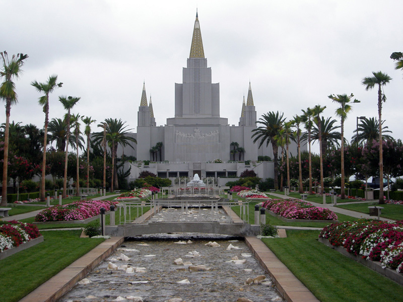 The Oakland California Temple of The Church of Jesus Christ of Latter-day Saints is located near the intersection of Lincoln Avenue and Highway 13. The pinnacle-like towers and massive white granite facade of the temple and associated buildings are perhaps the most visible landmark on the Hayward Fault in the East Bay region. The hilltop location of the temple provides fantastic views of the San Francisco Bay region, as well as the rift zone and shutter ridges formed by the Hayward Fault on which the temple buildings and ground were constructed.